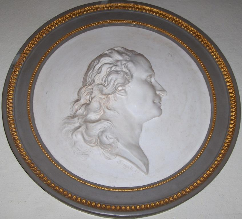 Relief of Johan Henric Kellgren by Johan Tobias Sergel, från Ulriksdals orangeri/skulpturmuseum.